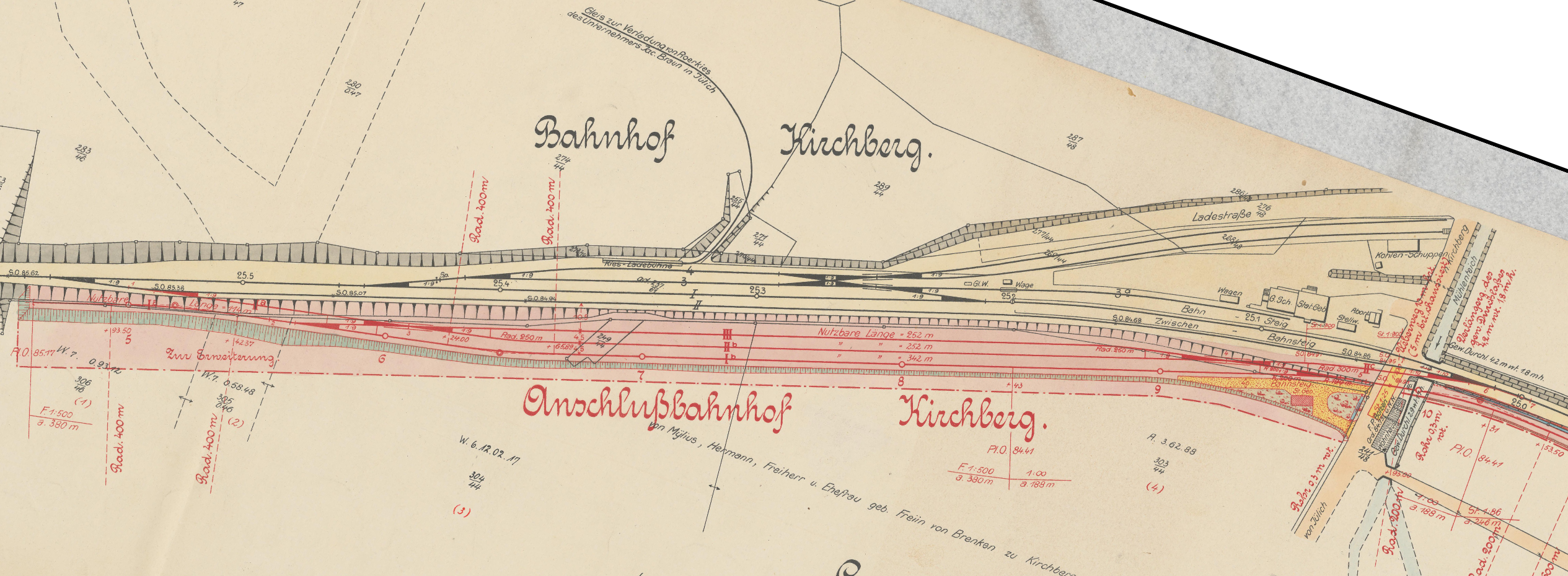 Plan of Kirchberg railway station of the Jülicher Kreisbahn 1910